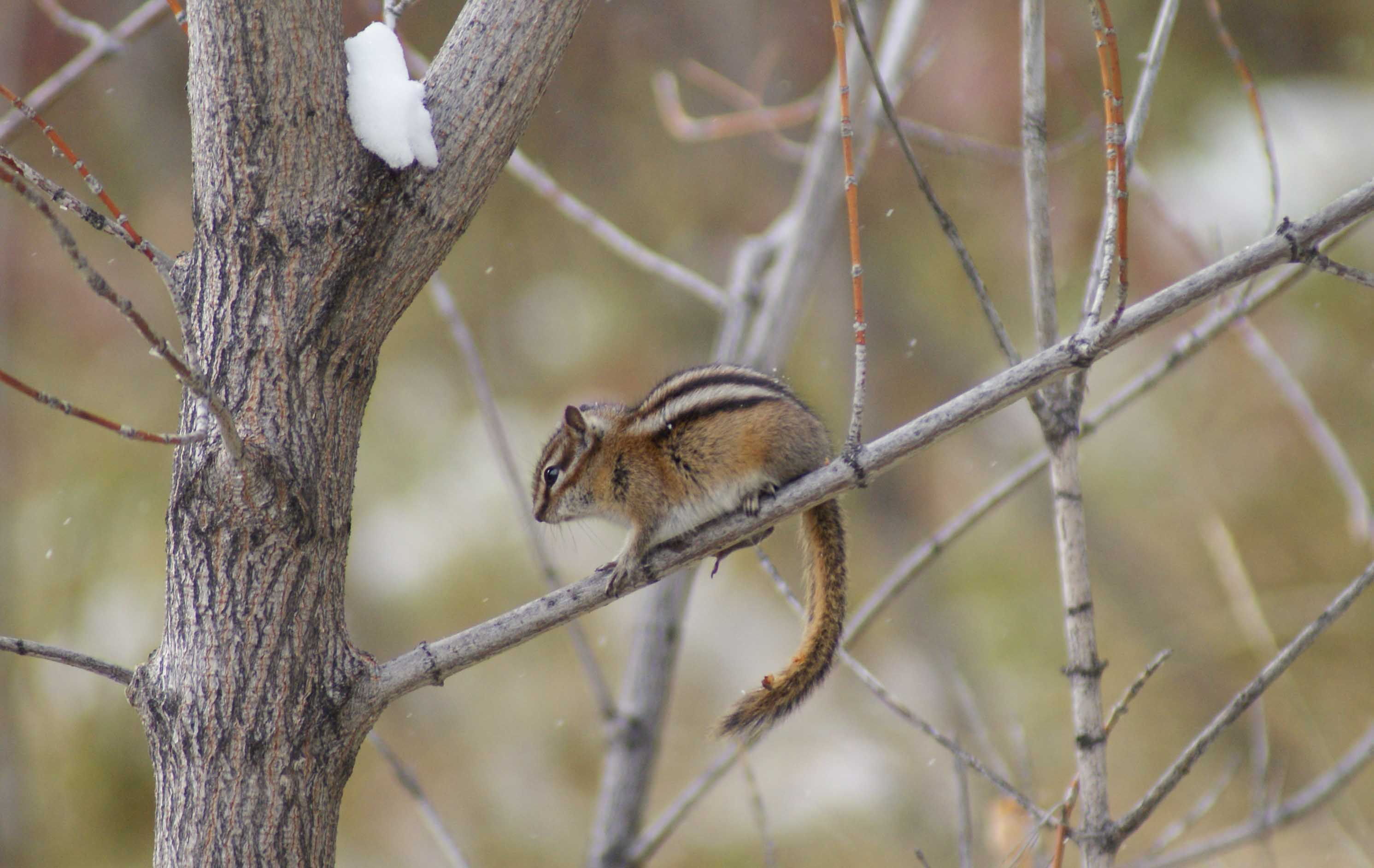 A small striped rodent with large tail by the Mendel Art Gallery in Saskatoon Saskatchewan Least Chipmunk Tamias minimus Talk about wildlife Synonym Eutamias minimus Canadian biodiversity McGill [1] The range of the least chipmunk is most of Canada, All of Ontario through the prairie provinces to northern British Columbia. This chipmunk has a grey-white belly and not a yellow belly like the similar species the.... [ Yellow-pine Chipmunk Tamias amoenus]. The range of the Yellow-Pine chimpmunk is mainly British Columbia Very similar also to the Eastern Chipmunk but its range is southern Ontario mainly.